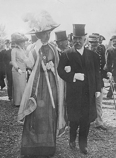 John G. A. Leishman, while he was Ambassador to Italy, with the Queen of Italy at a Rome Exhibition